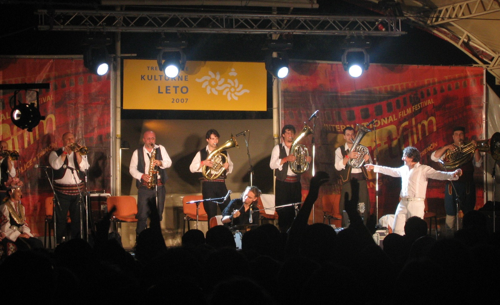 Goran Bregović and Wedding and Funeral Orchestra. Picture from open air performance during ARTFILM film festival. Trenčín, Slovakia.